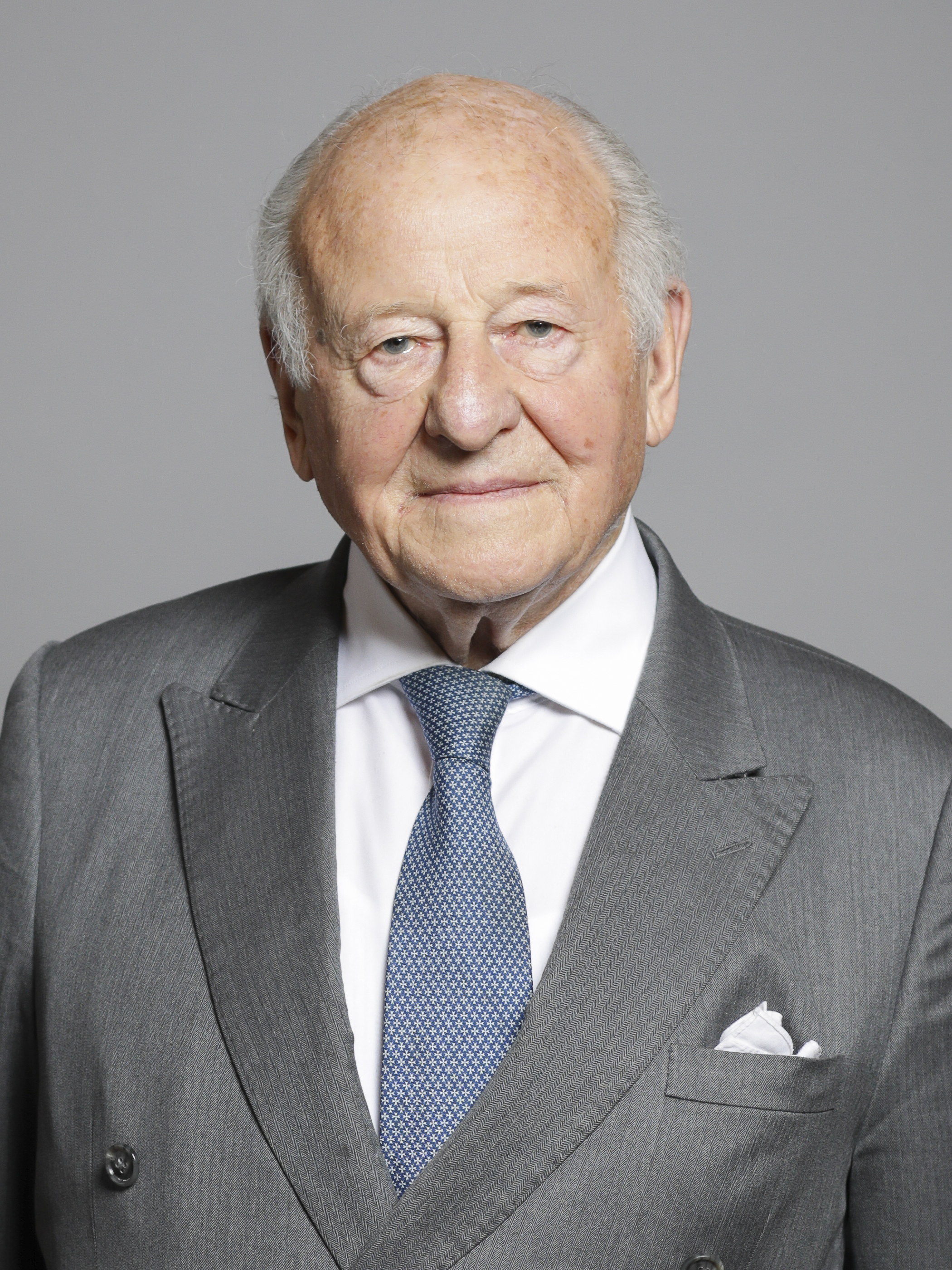 Official portrait of Viscount Bridgeman Full sized portrait of Viscount Bridgeman